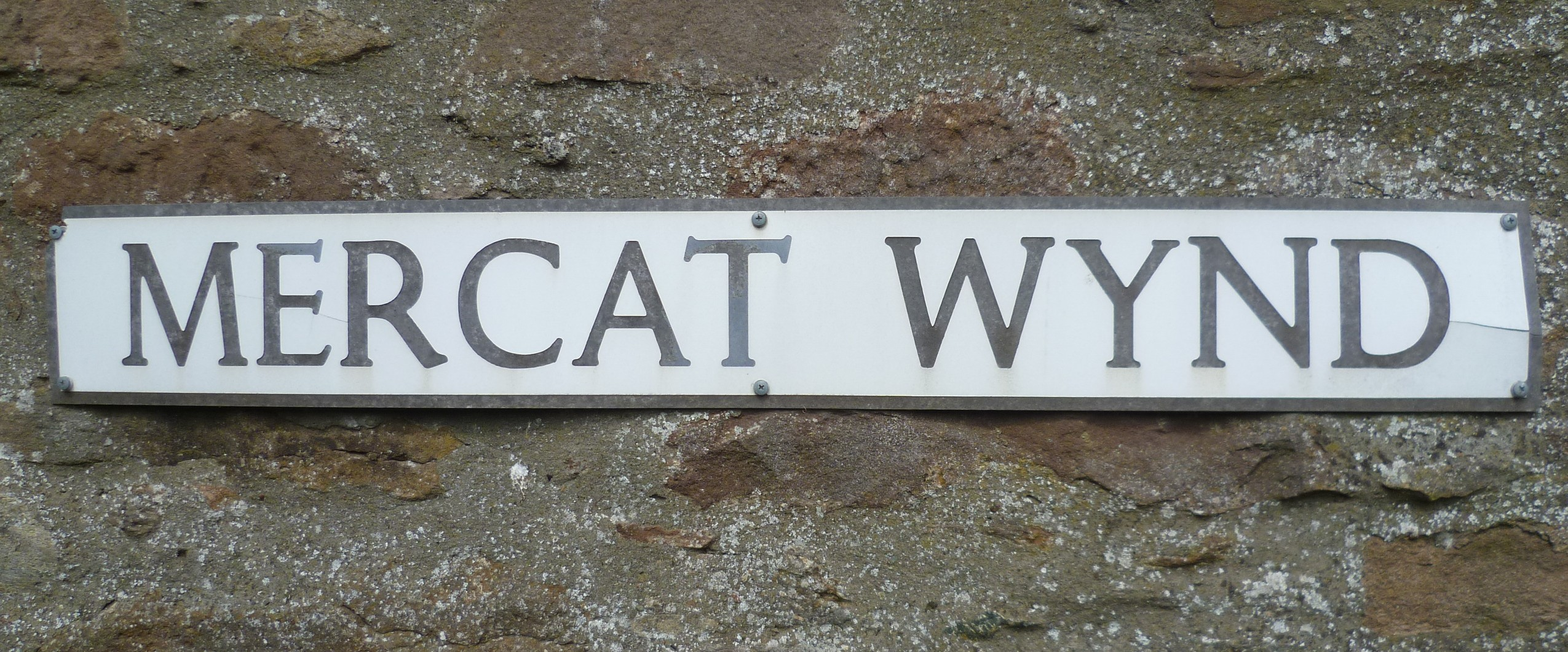 Street sign for Mercat Wynd, Kinrossie, Perth and Kinross